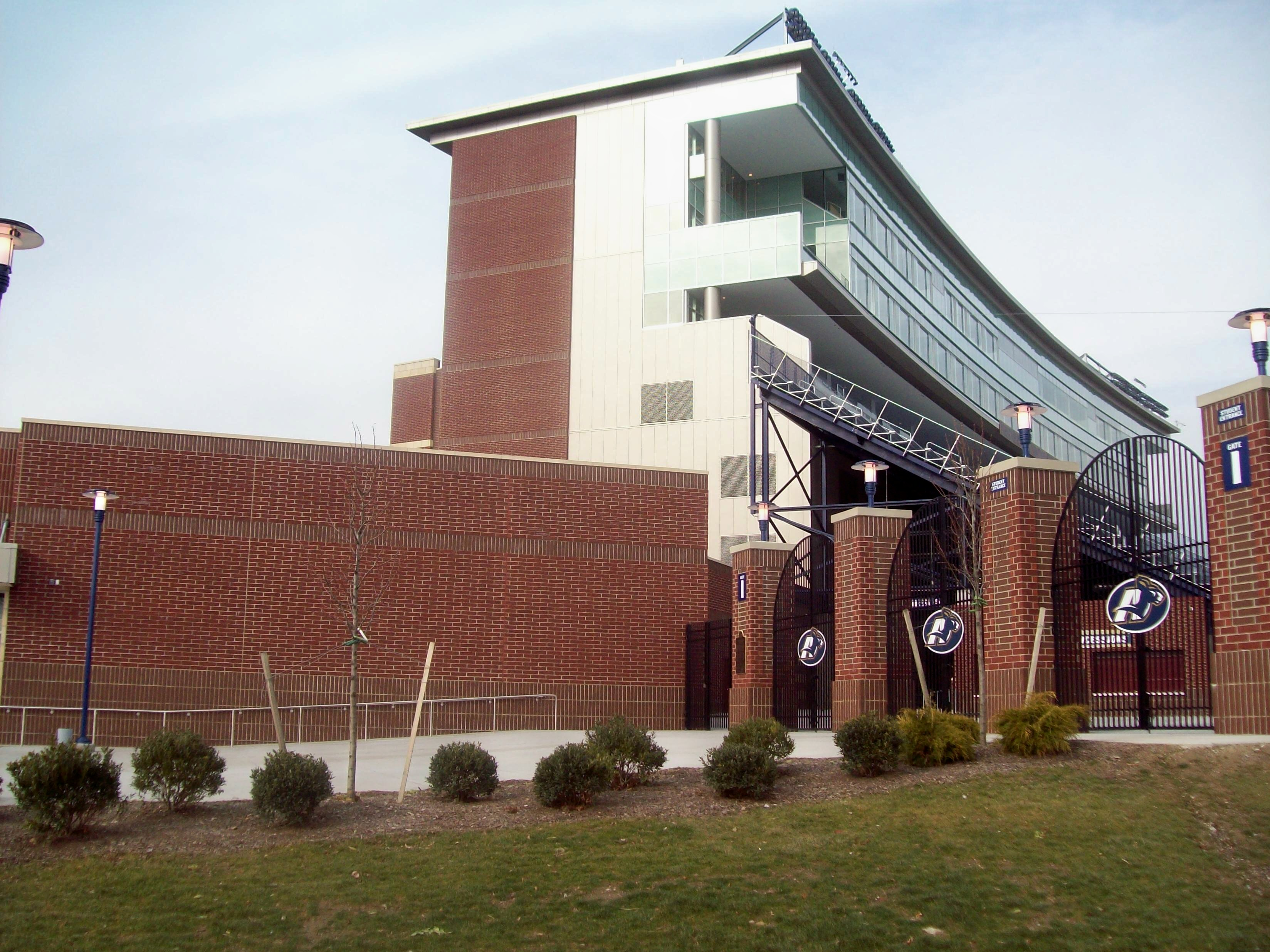 Infocision Stadium at Summa Field